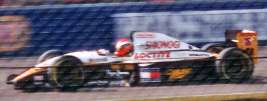 Johnny Herbert's Lotus at the 1994 British Grand Prix.